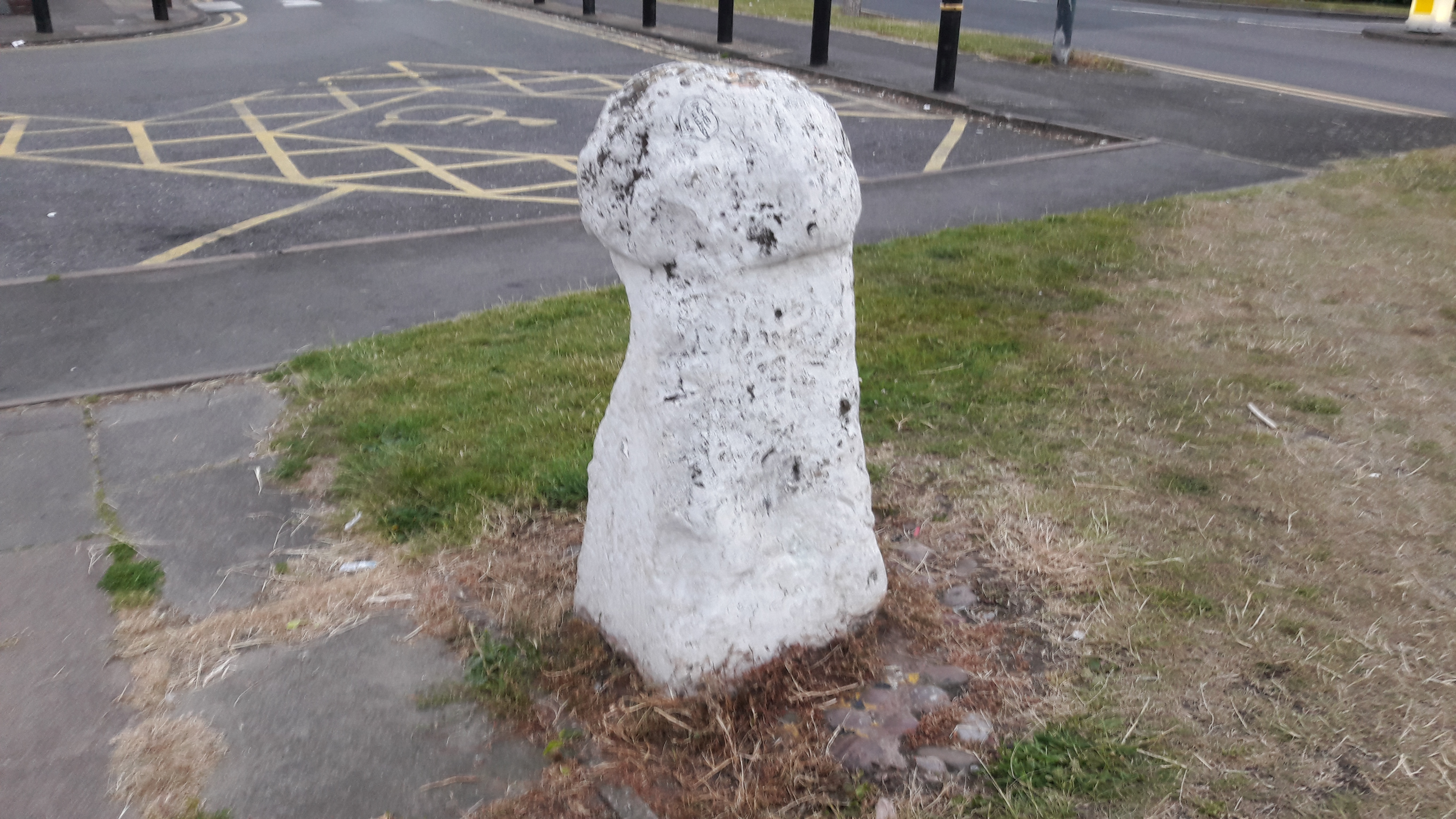 "The White Stone"